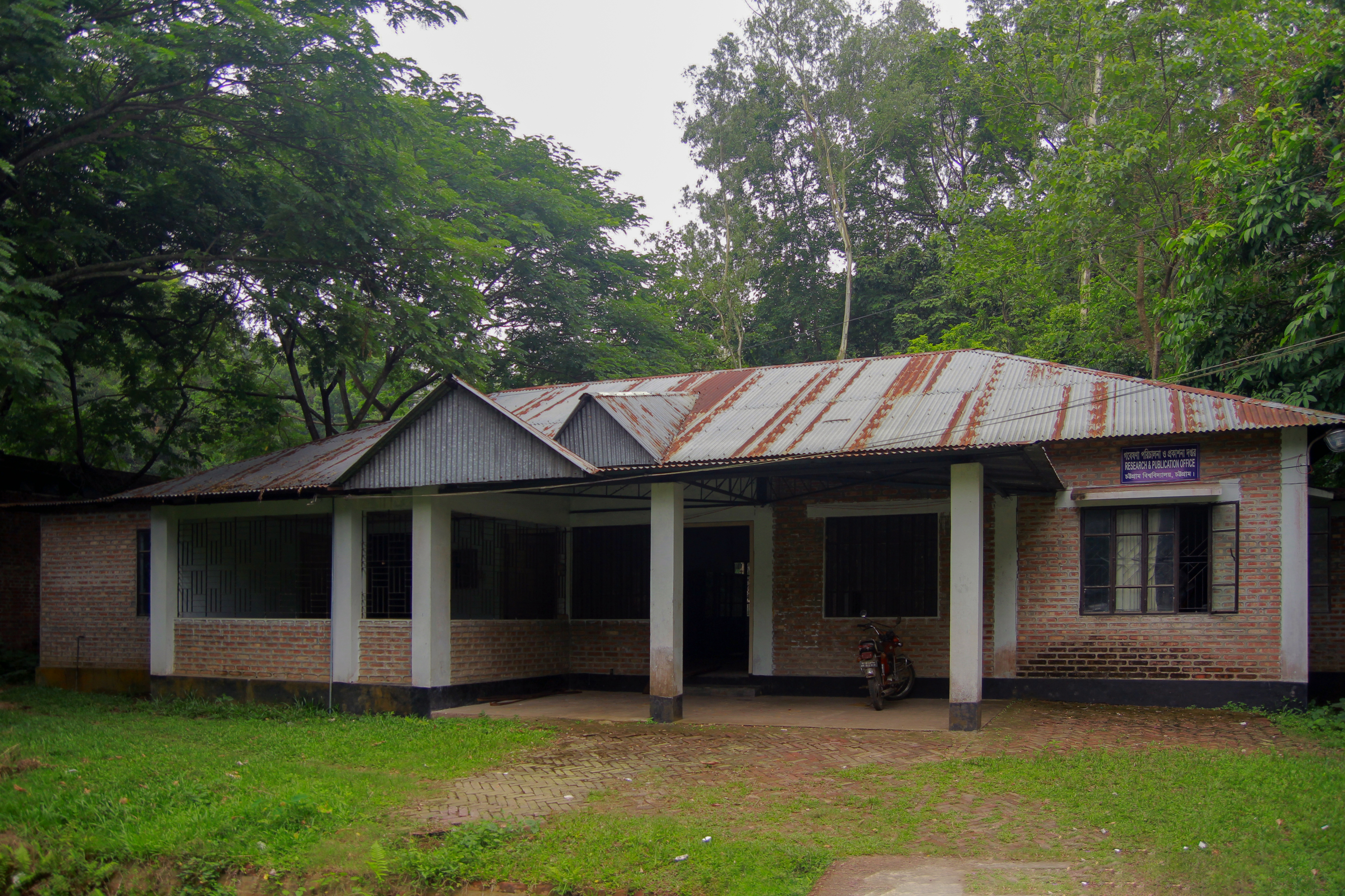 Research & Publication Office, University of Chittagong (west exposure, front)